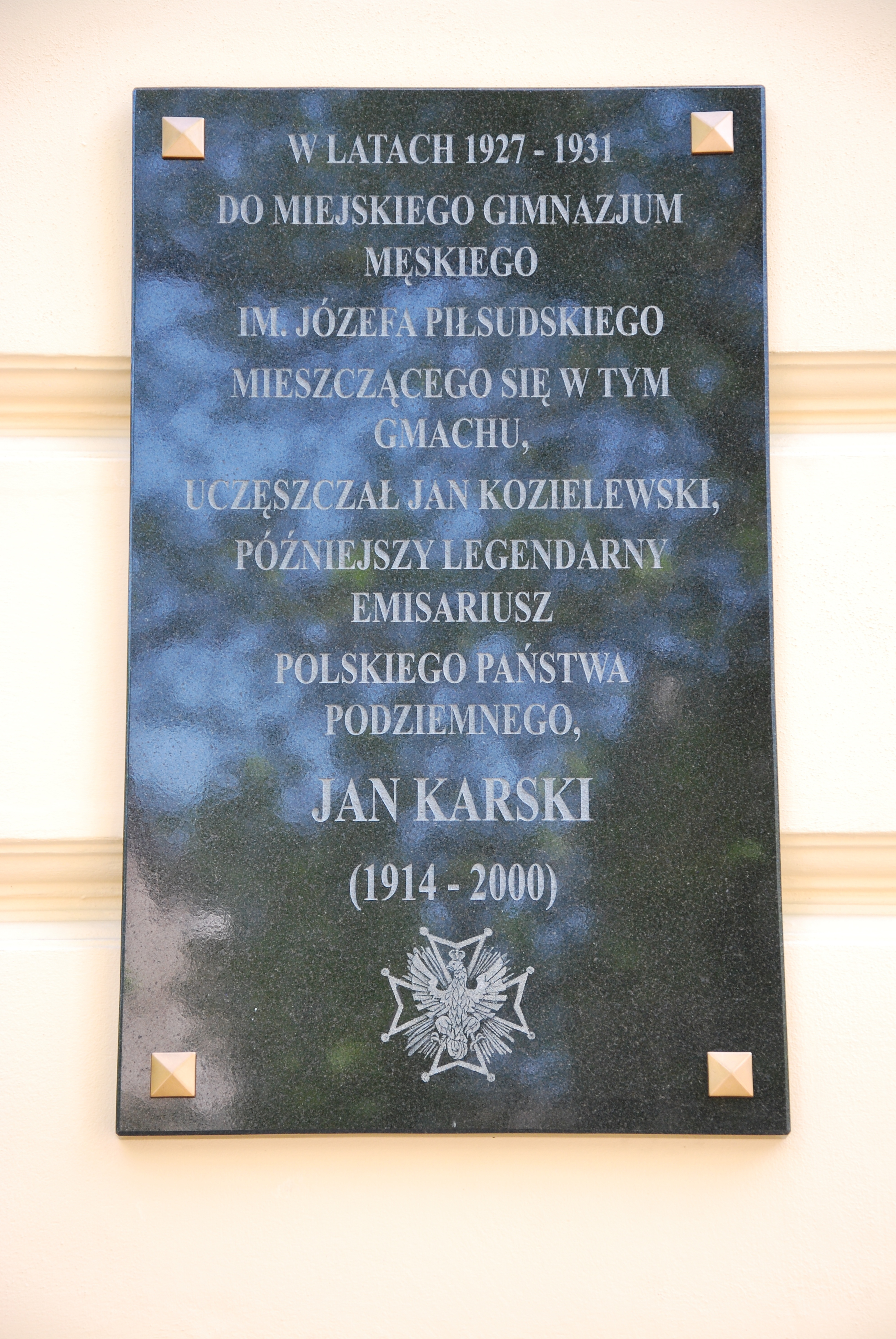 Jan Karski plaque, Łódź III LO, 46 Sienkiewicza Street